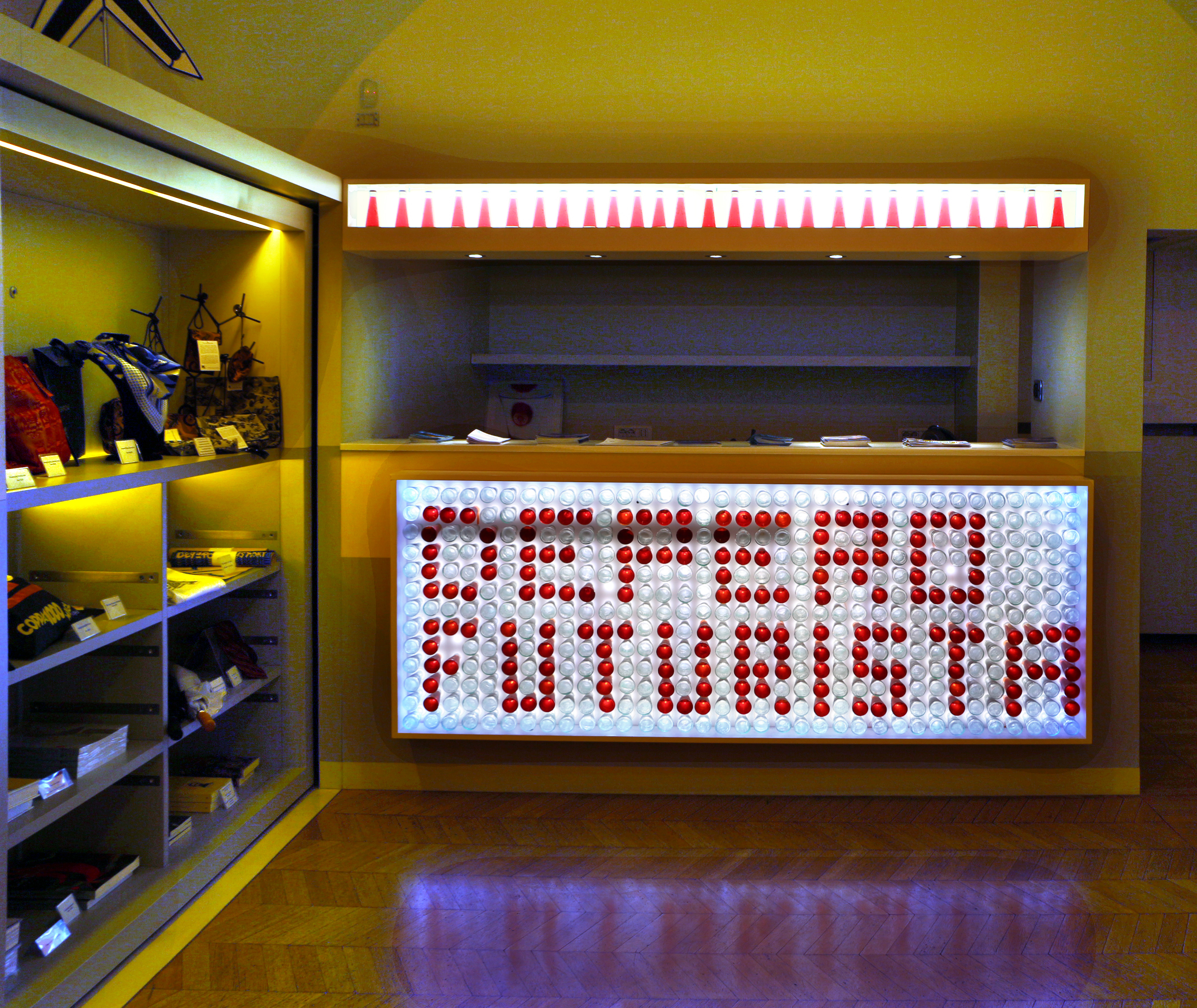 Rovereto